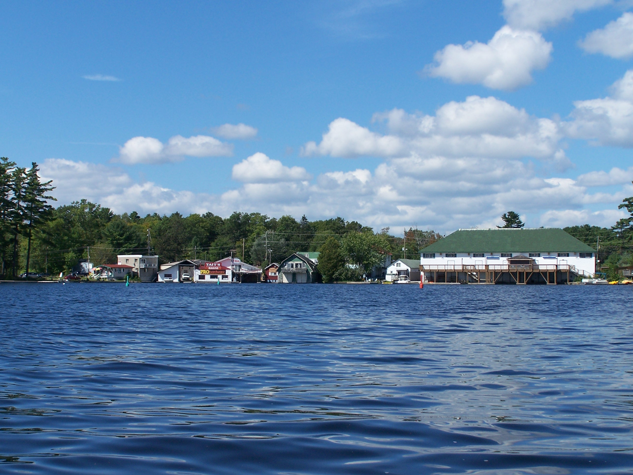 The souther portion of the town of Bala, Ontario as viewed from Bala Bay